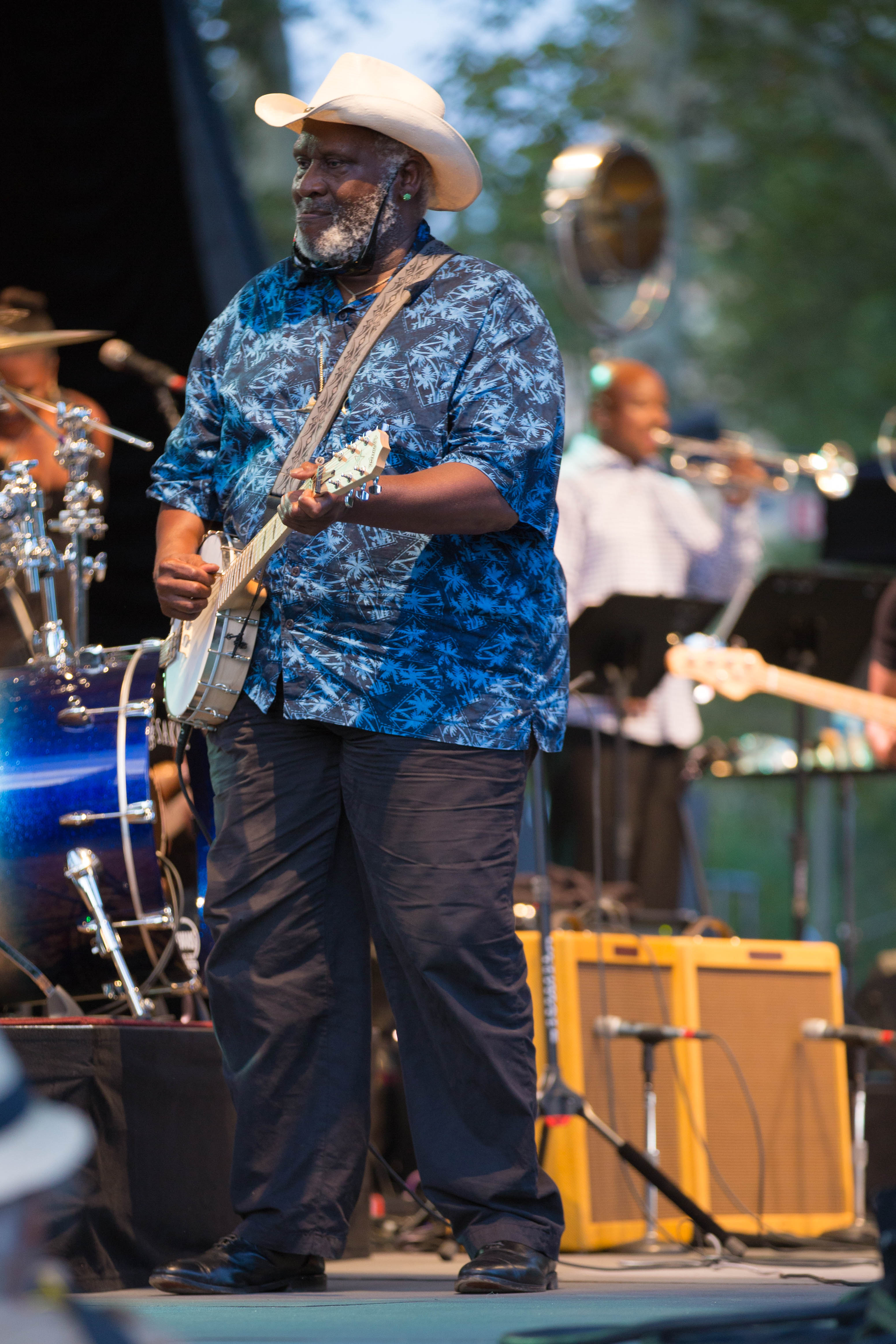 Taj Mahal at Central Park in New York (SummerStage Festival) in 2017